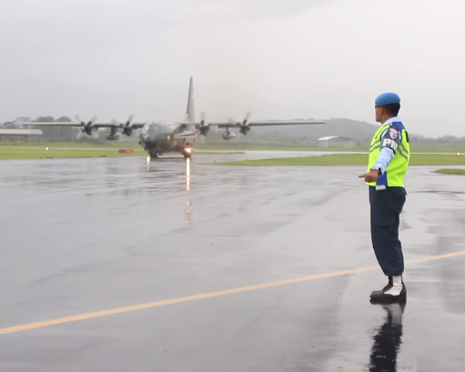 An Indonesian Air Force Police officer on a taxi way in the Abdulrahman Saleh airbase, Indonesia